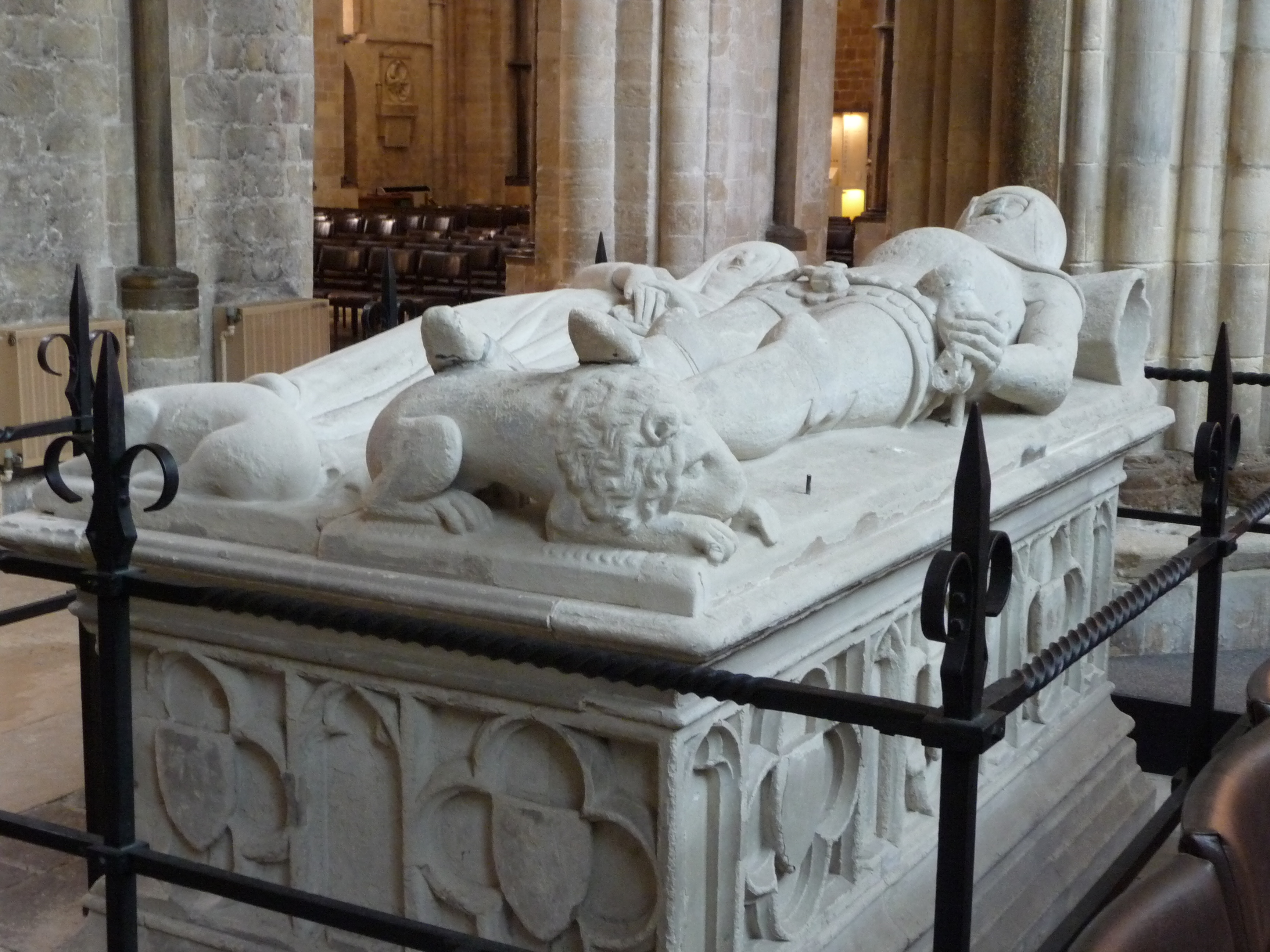 The Arundel Tomb at Chichester Cathedral, which inspired the poem An Arundel Tomb by Philip Larkin. (Note: The effigies in Chichester Cathedral are attributed to Richard FitzAlan and Eleanor of Lancaster. FitzAlan and Eleanor were actually buried in Lewes Priory. Although Larkin called the effigies a "tomb", they are actually a "memorial". See Talk, Distinction needs to be made: Not a "tomb" but a "memorial".) The plaque in the cathedral reads as follows: An Arundel Tomb The figures represent Richard Fitzalan III, 13th Earl of Arundel (ca 1307-1376) and his second wife Eleanor, who by his will of 1375 were to be buried together "without pomp" in the chapter house of Lewes Priory. The armour and dress suggest a date near 1375; the knight's attitude is typical of that time, but the lady's crossed legs, giving the effect of a turn towards her husband, are rare. The joined hands have been thought due to "restoration" by Edward Richardson (1812-69), but recent research has shown the feature to be original. If so, the monument must be one of the earliest showing the concession to affection where the husband was a knight rather than a civilian.